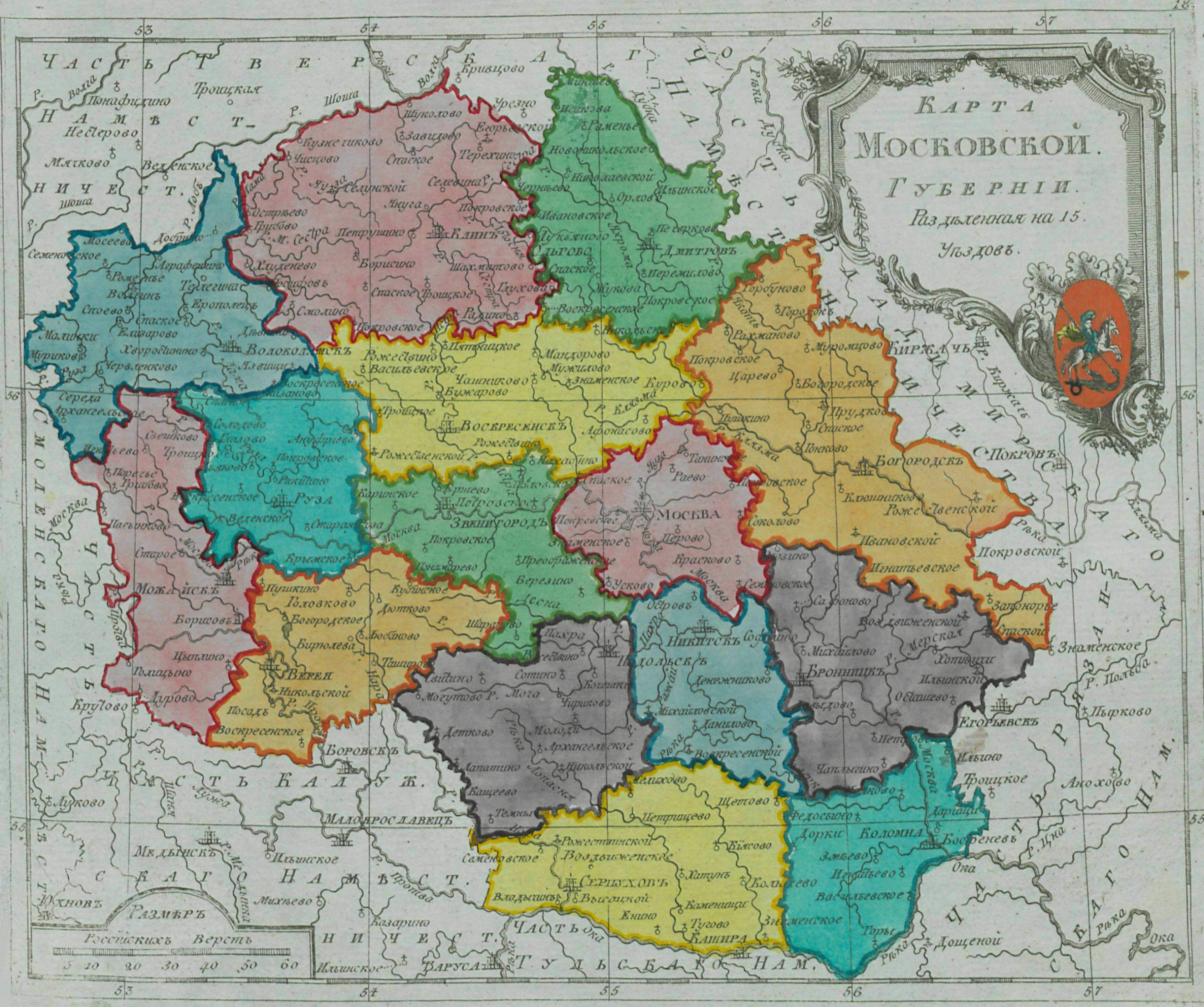 Small atlas of the Russian Empire (1792). Map of Moscow Governorate (map 18).